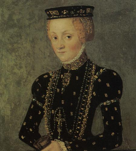 Catherine Jagellonica of Poland (1526-1583), Duchess of Finland, queen of Sweden, wife of king John III Vasa of Sweden